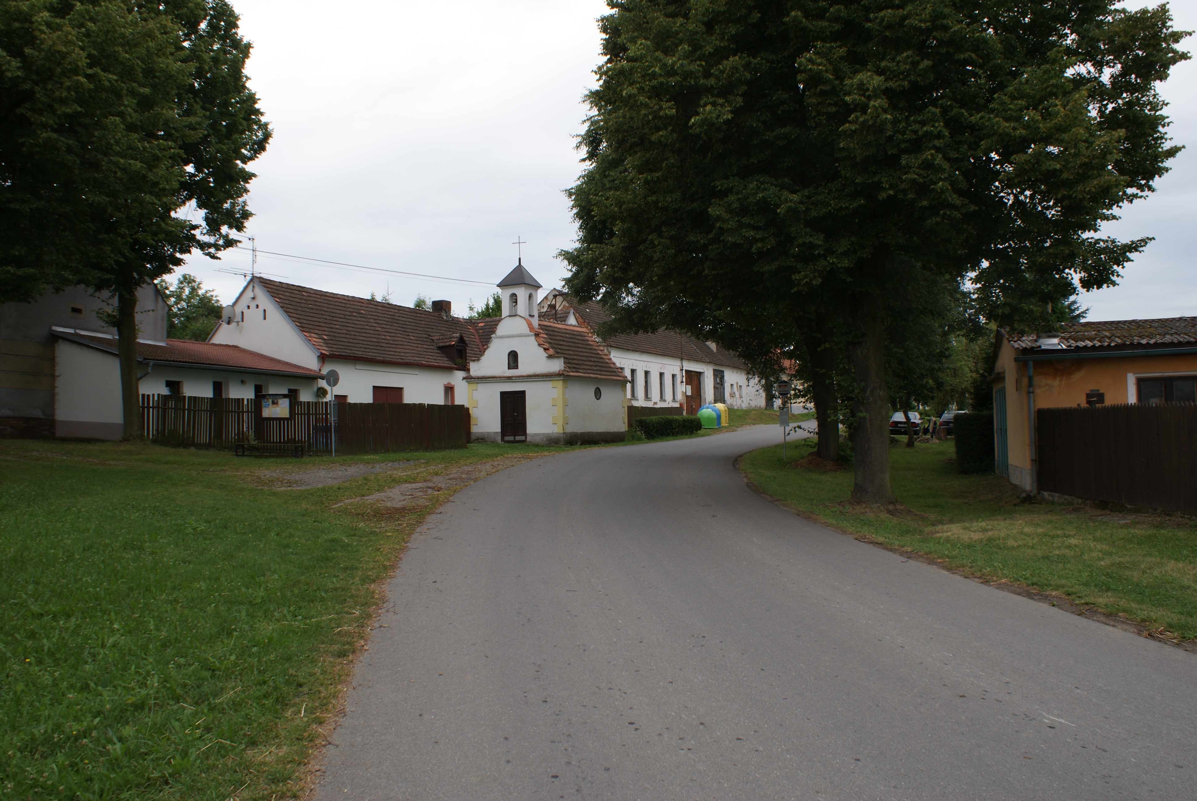 Podolí II, a village in Písek district, Czech Republic, the village common.